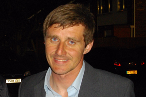 Photo of Marcus Law taken by myself following the friendly game between Tamworth and Aldershot Town on 12 July 2011 at The Lamb Ground in Tamworth.